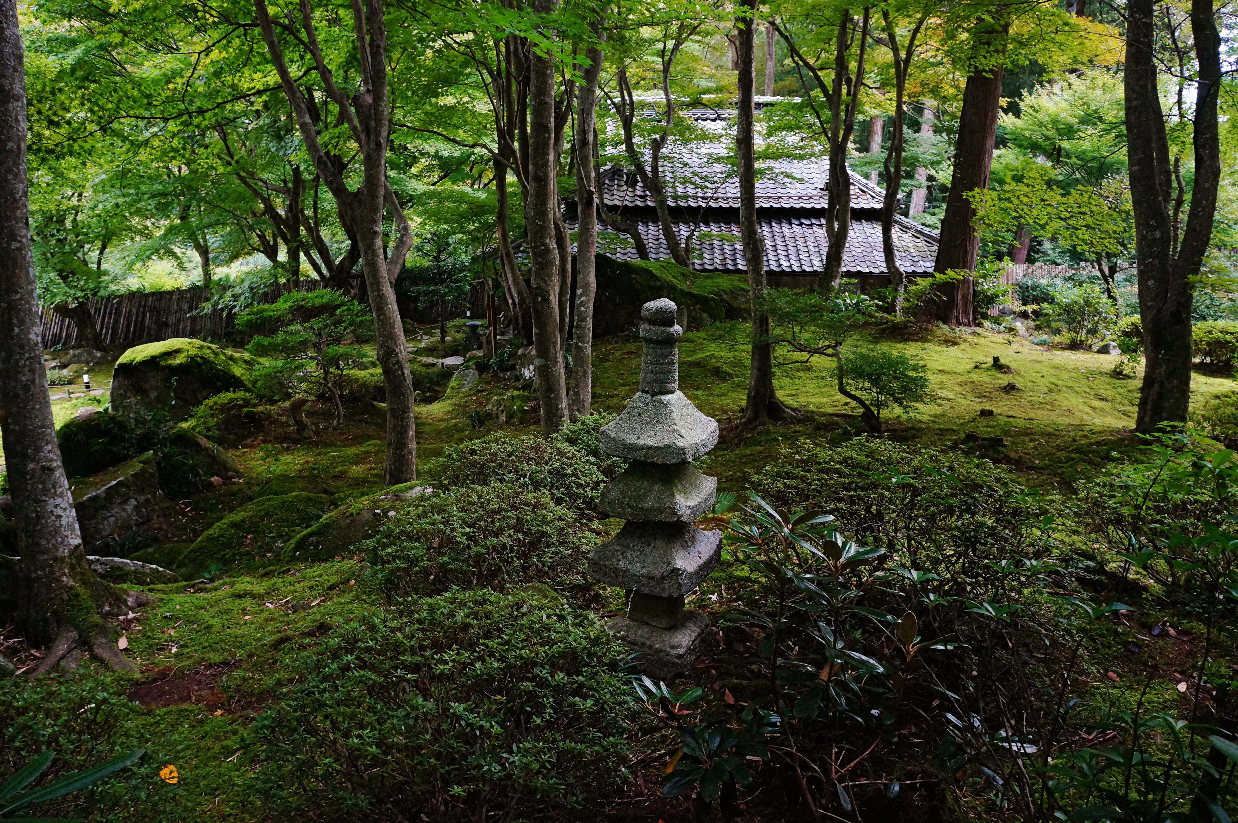 Kyorin-bo in Azuchi, Omihachiman, Shiga prefecture, Japan.